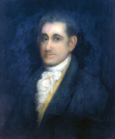 John Adair (1757–1840), the eighth Governor of the U.S. state of Kentucky .